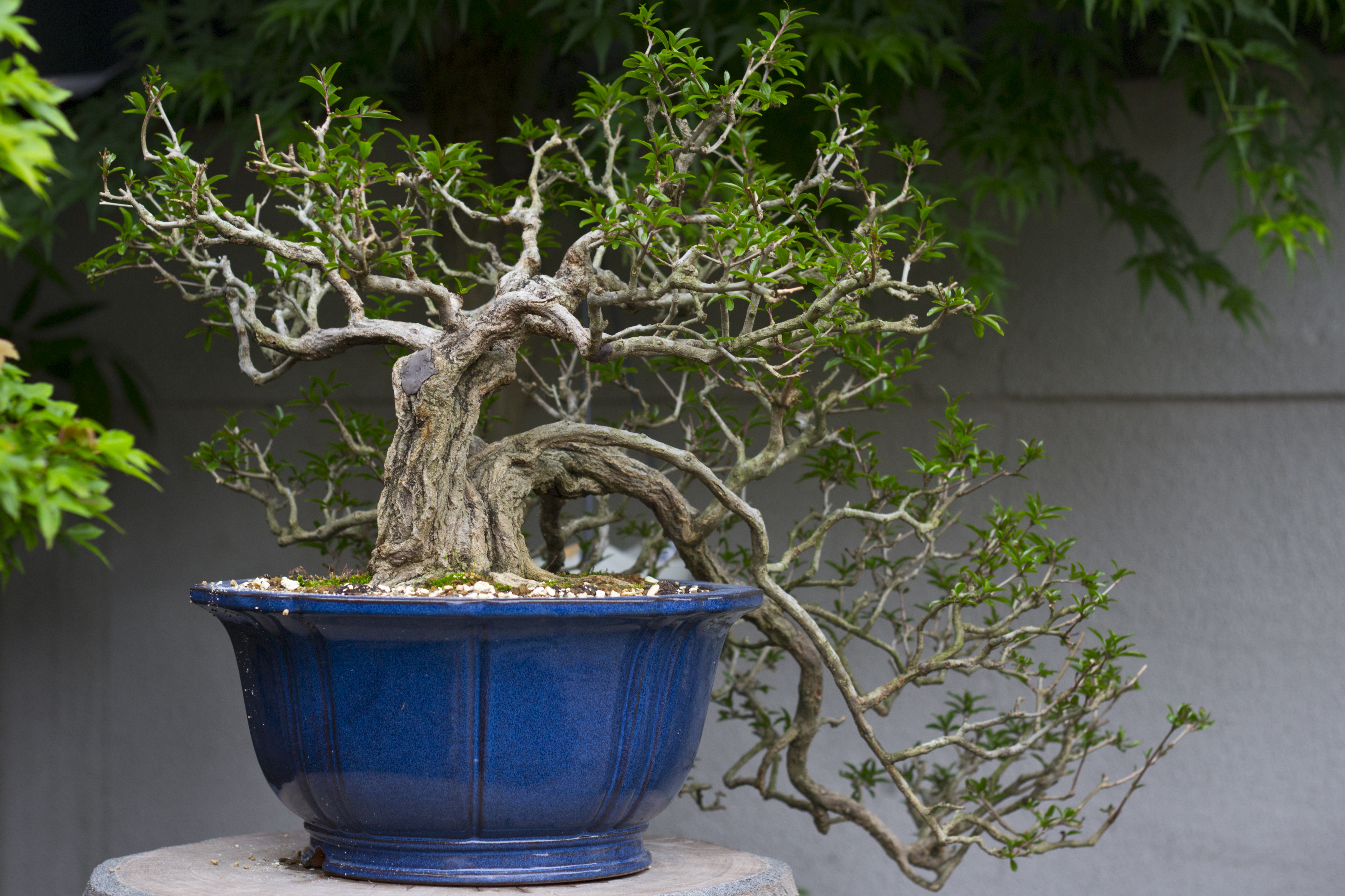 Bonsai tree at display at a Bonsai grower in Bonsai-mura, Bonsai-cho, Saitama, Japan.